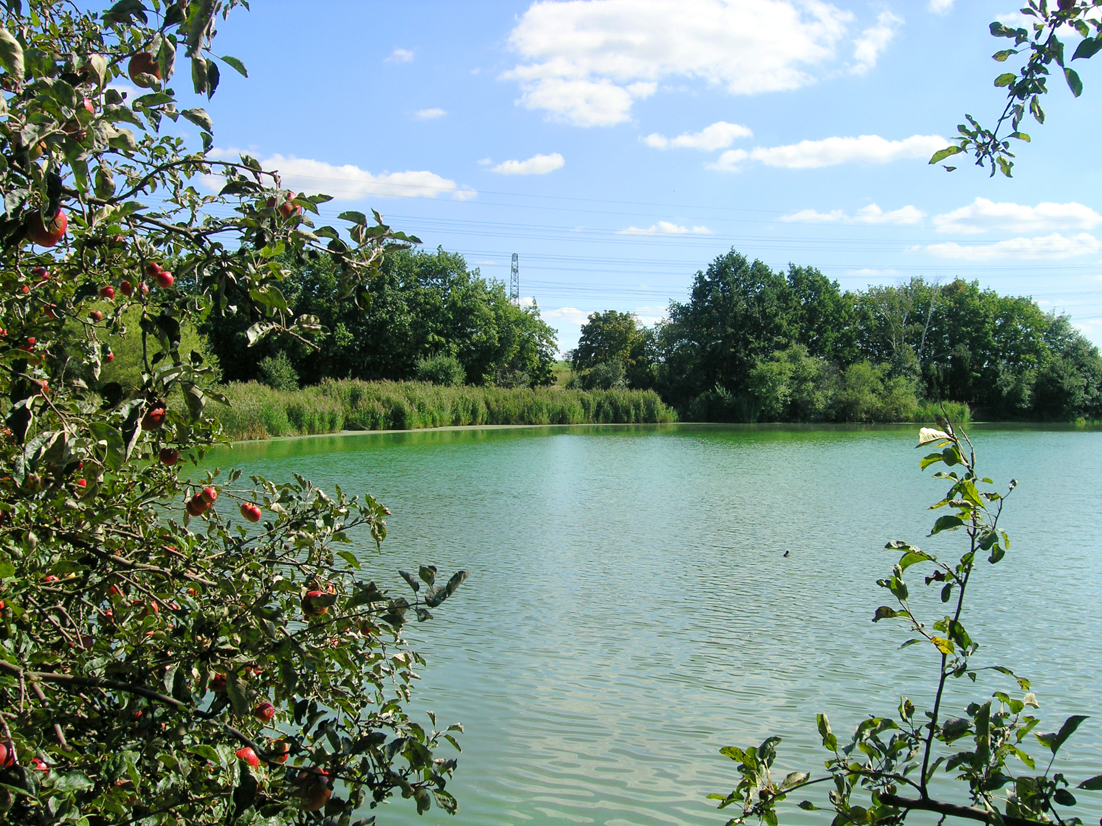 Olšanský pond in Kunratice, Prague